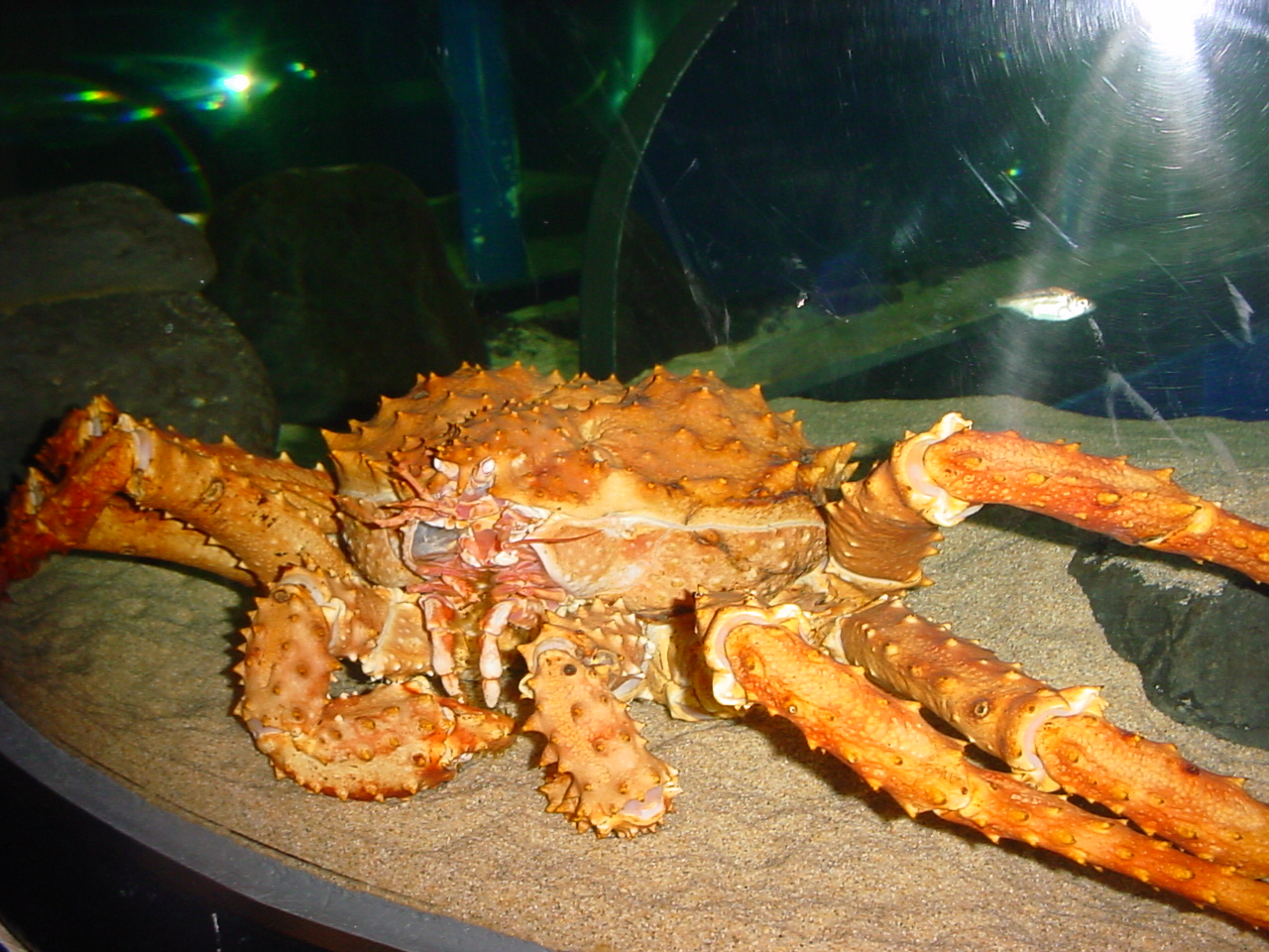 Alaska King Crab